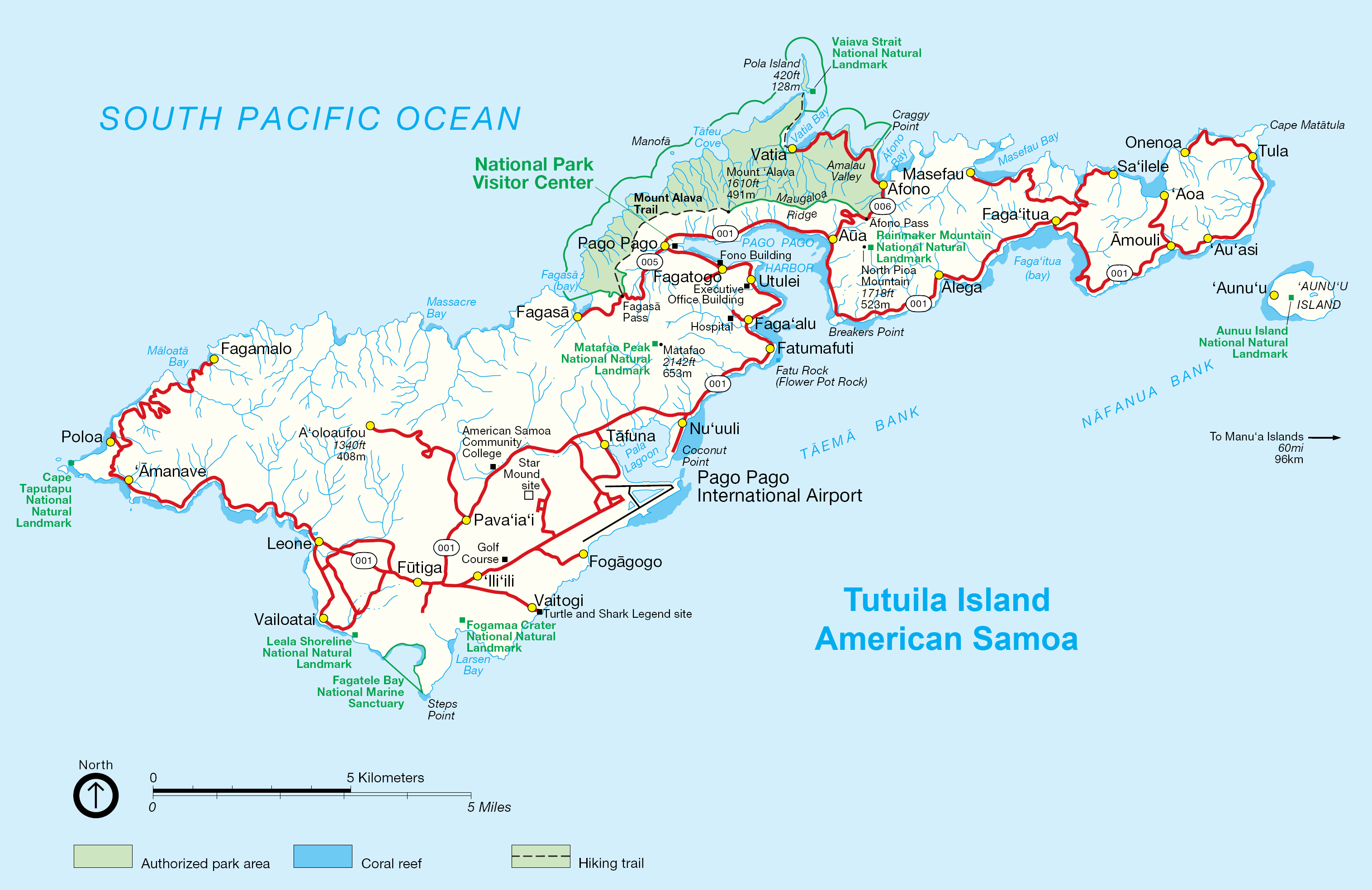 NPS map of Tutuila, American Samoa